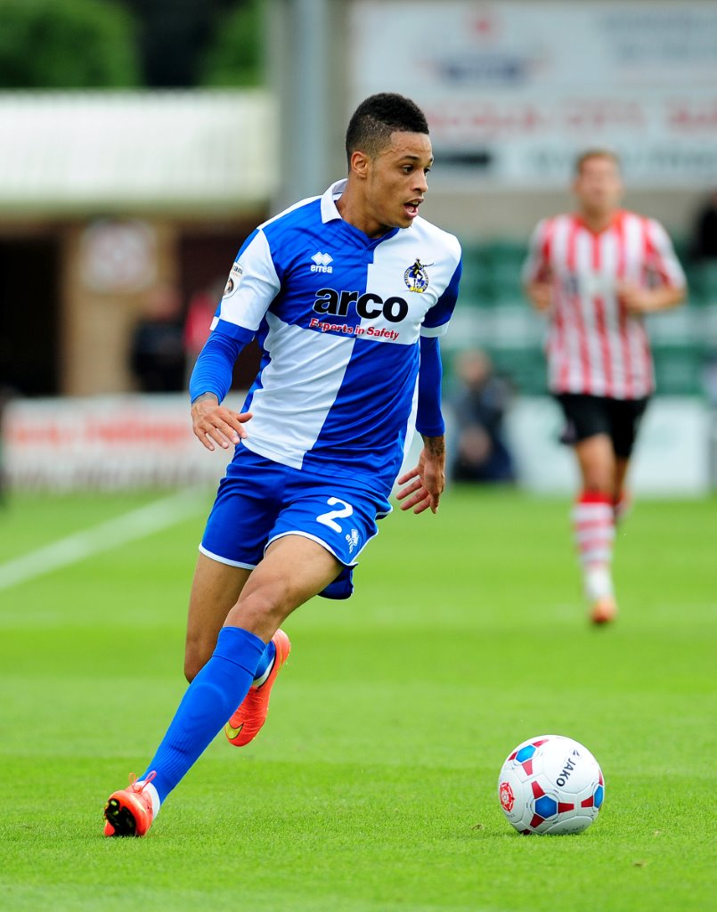 Leadbitter in action vs lincoln